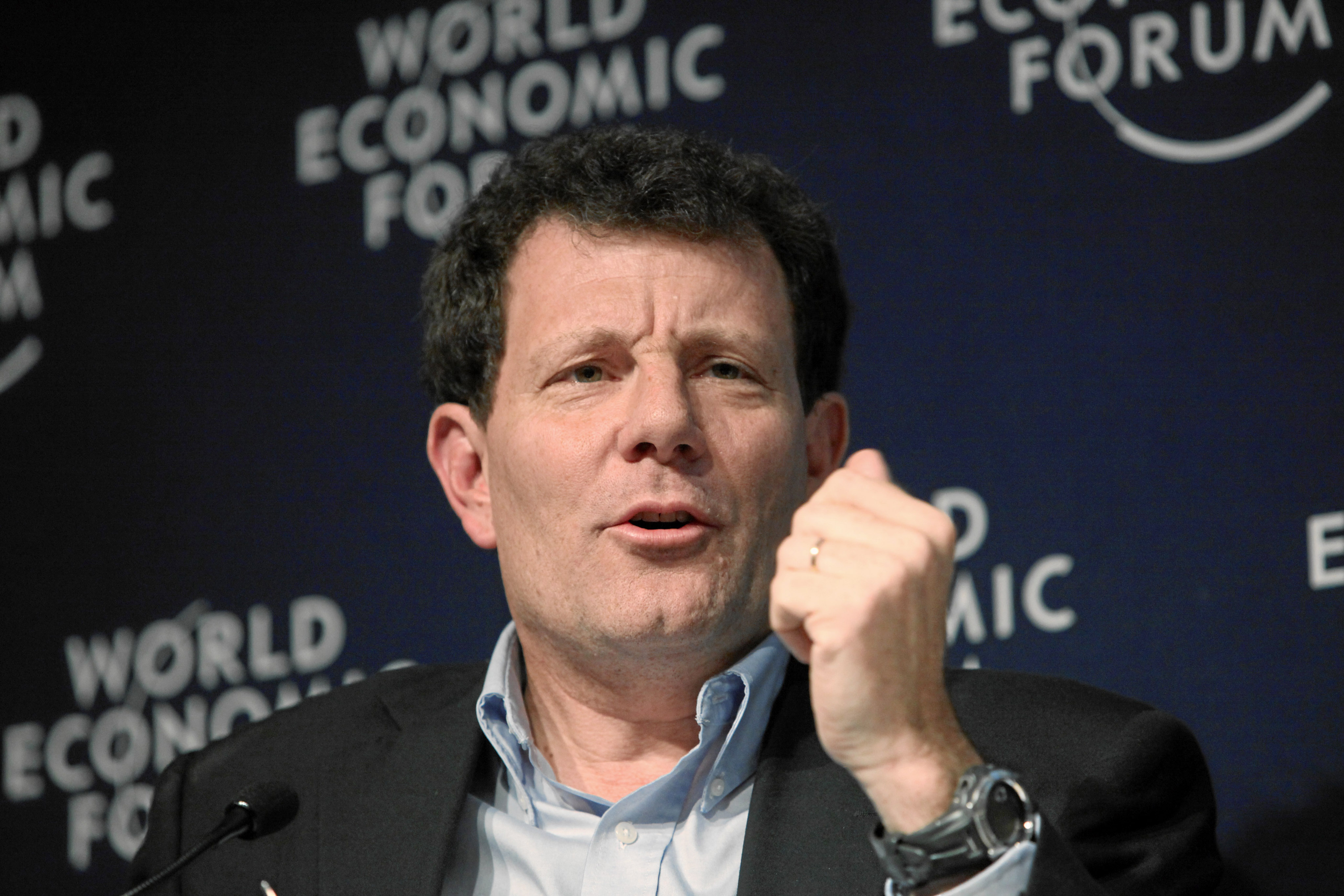 DAVOS/SWITZERLAND, 30JAN10 - Nicholas D. Kristof, Columnist, The New York Times, USA is captured during the session 'Redesign Your Cause' of the Annual Meeting 2010 of the World Economic Forum in Davos, Switzerland, January 30, 2010.. . Copyright by World Economic Forum. by Monika Flueckiger.